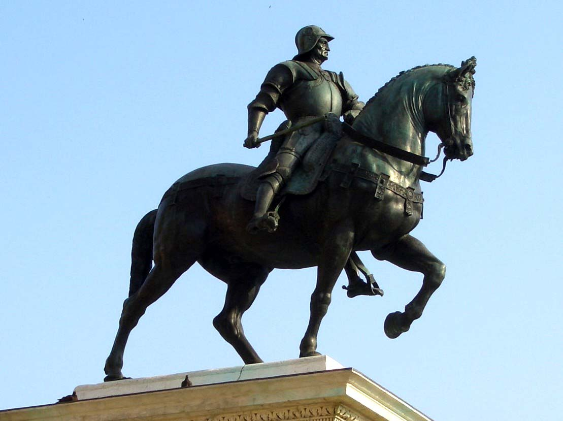 Bartolomeo Colleoni, bronze statue by Verrocchio, in Venezia, "Campo dei santi Giovanni e Paolo" square.